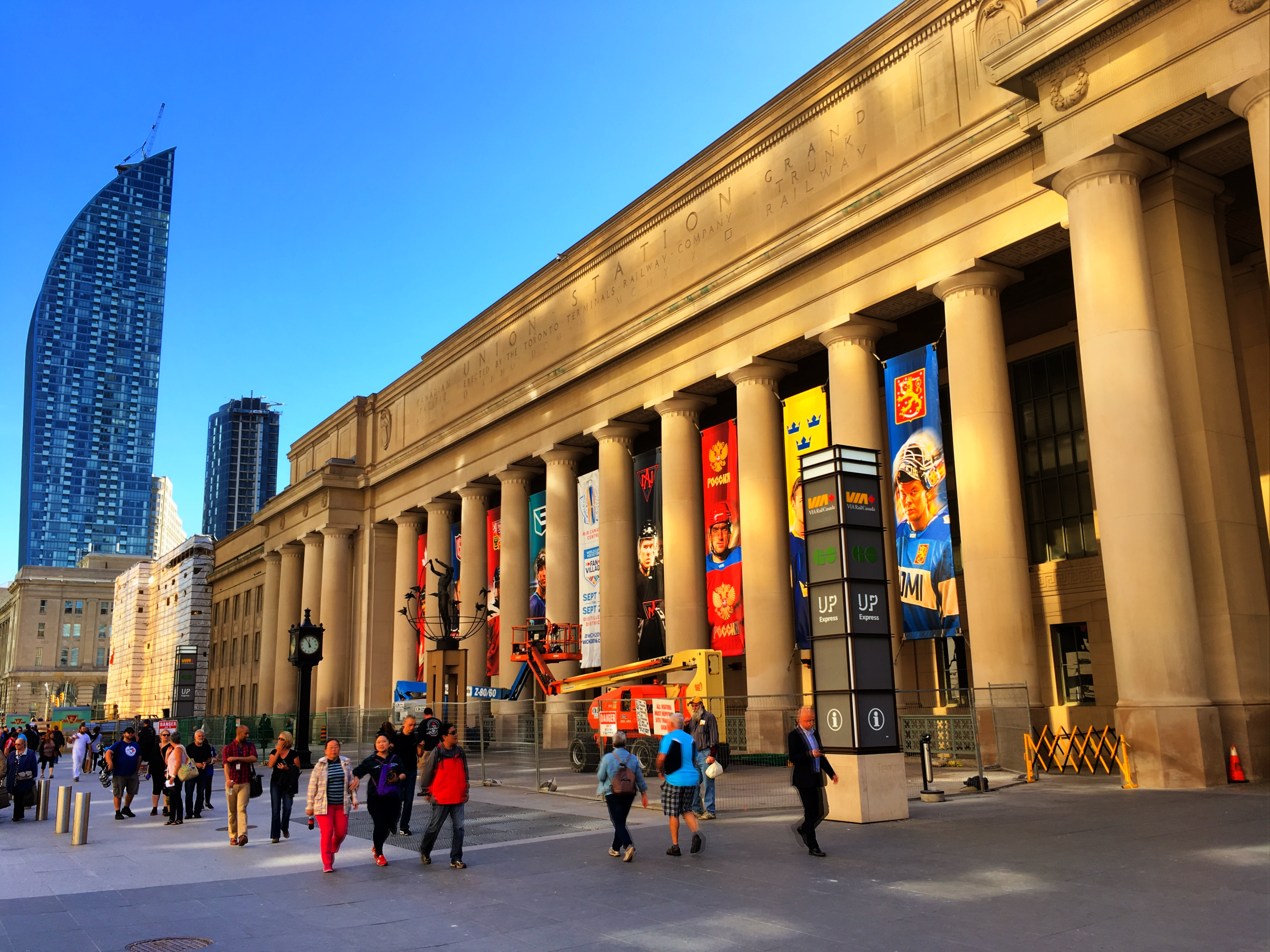 Union Station, Toronto